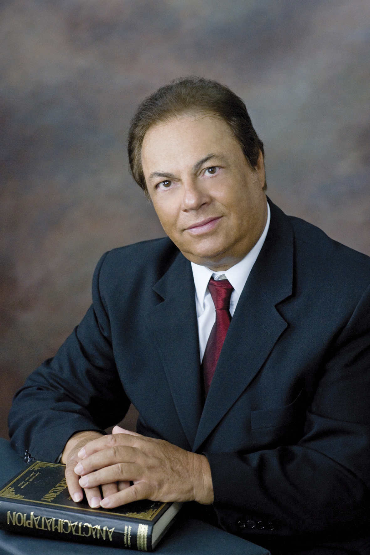 This is a photo of Solon Hadjisolomos to be placed in an article about him.